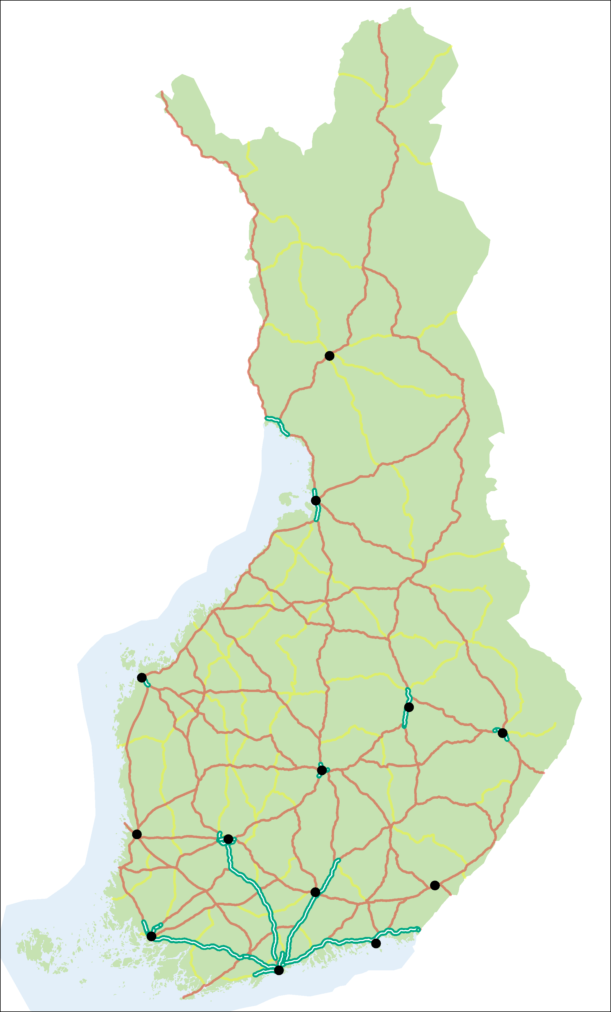 Map of motorways in Finland. Motorways (moottoritie) in green, other main roads (numbers 1–29) are red, 2nd class main roads (numbers 40–98) yellow. Black dots show urban agglomerations with more than 50,000 inhabitants.